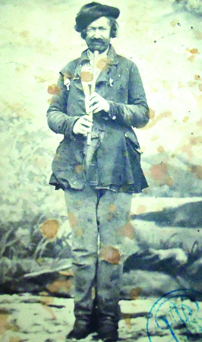 A photography of Avram Iancu in his old, half-mad years.